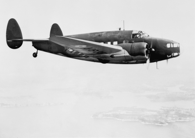 Australia: New South Wales, Sydney. RAAF Lockheed Hudson aircraft A16-35 in flight near Sydney Heads. Delivered to the RAAF on 9 February 1940, this Hudson served with No. 1 Squadron RAAF in Western Java during the Japanese onslaught of early 1942. On 22 February 1942, whilst stationed at Semplak aerodrome, which was completely without anti-aircraft defences, A16-35 was one of six Hudsons destroyed on the ground during a strafing attack by approximately twenty A6M Zeros.